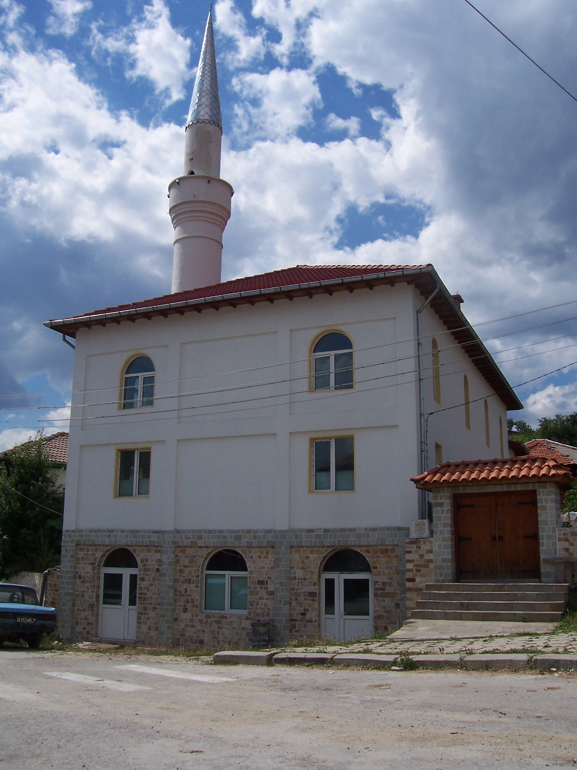 The mosque in the village of Satovcha.